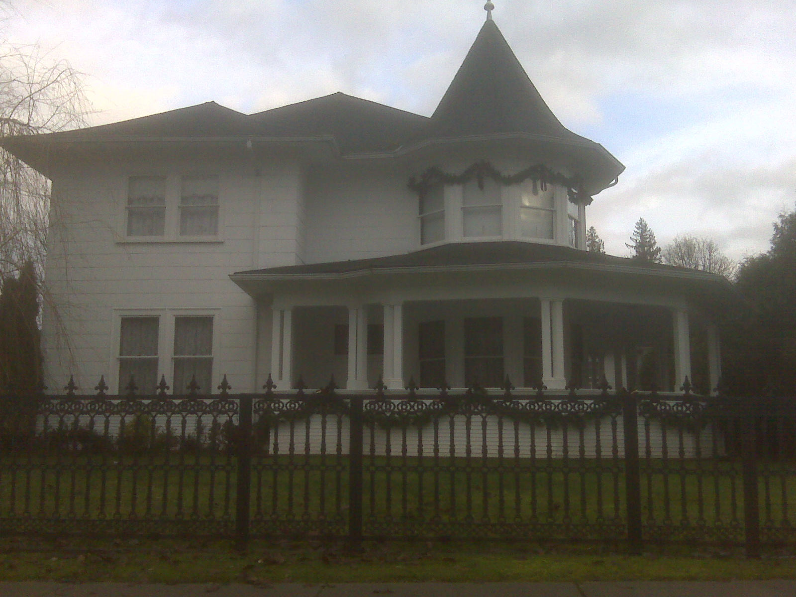 Historic Hill House in Albion, British Columbia